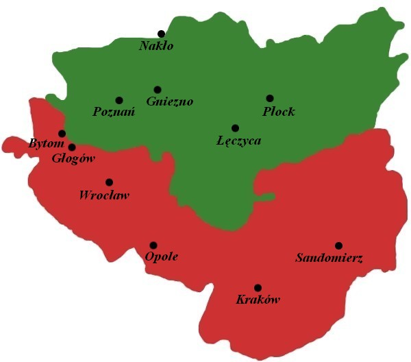 The map of division of Polish Duchy in 1102, after death of Władysław I Herman.